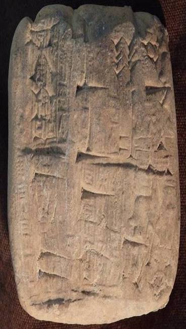 A smuggled artifact from United States versus Approximately 450 Ancient Cuneiform Tablets